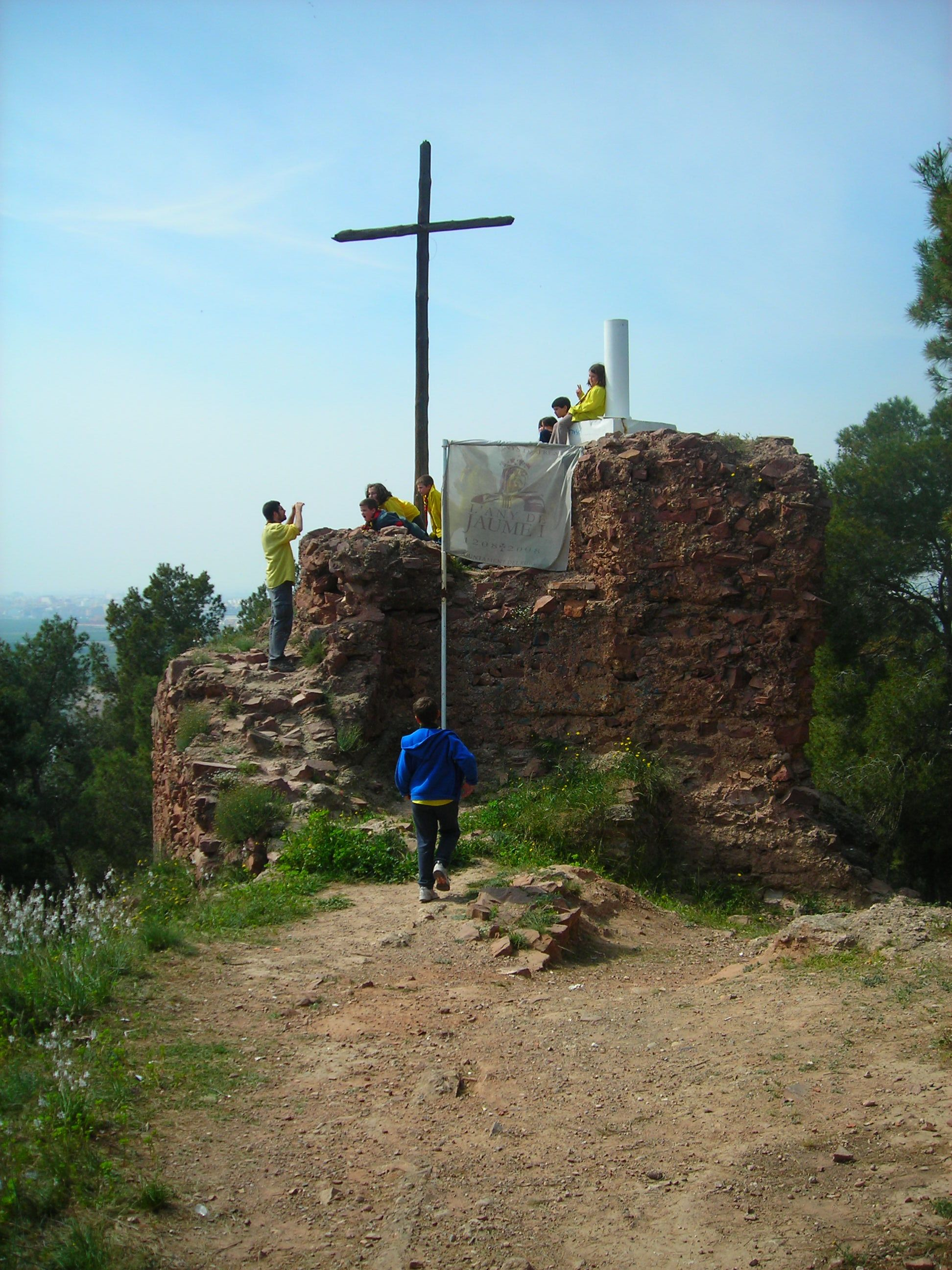 The castle of James I of Aragon in El Puig, Valencia